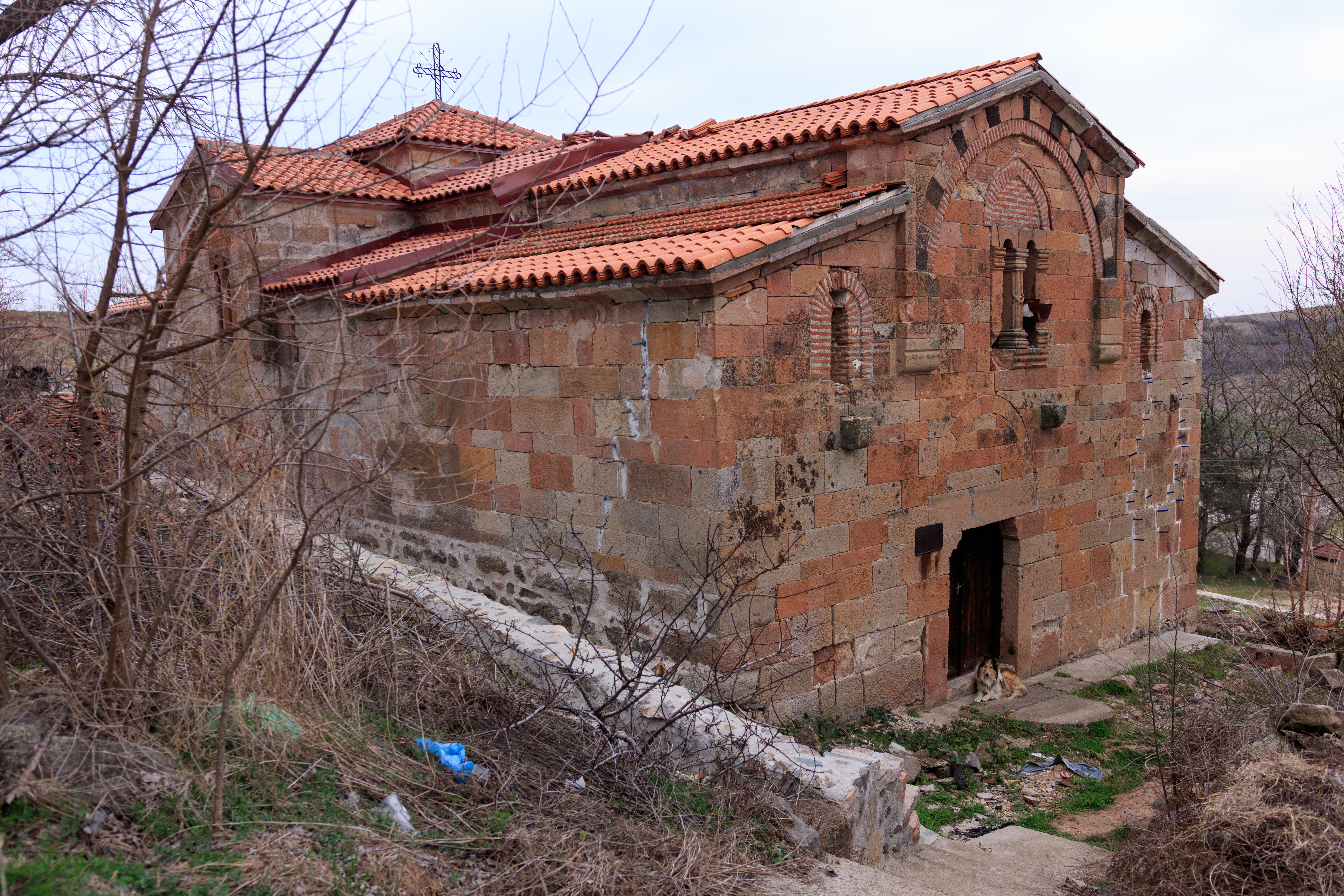 St. George's Church (Mlado Nagoričane)